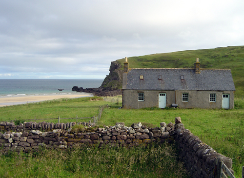 Kearvaig Bothy This rudimentary hut is in use as a bothy here at Kearvaig